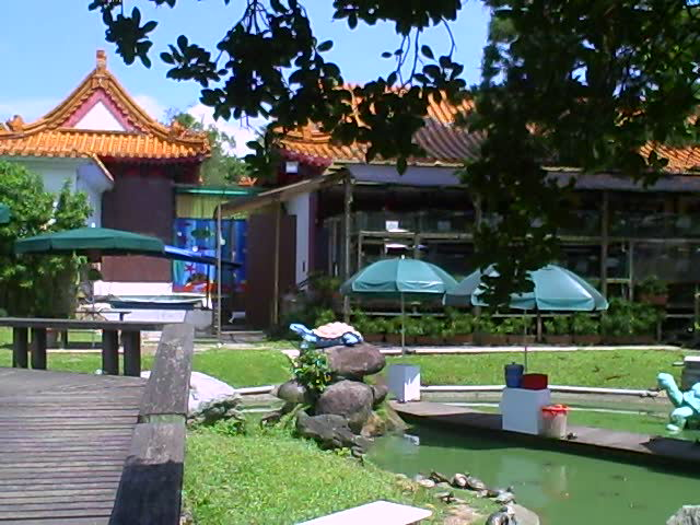 The Live Turtle and Tortoise Museum, Chinese Garden, Singapore, Fall 2011